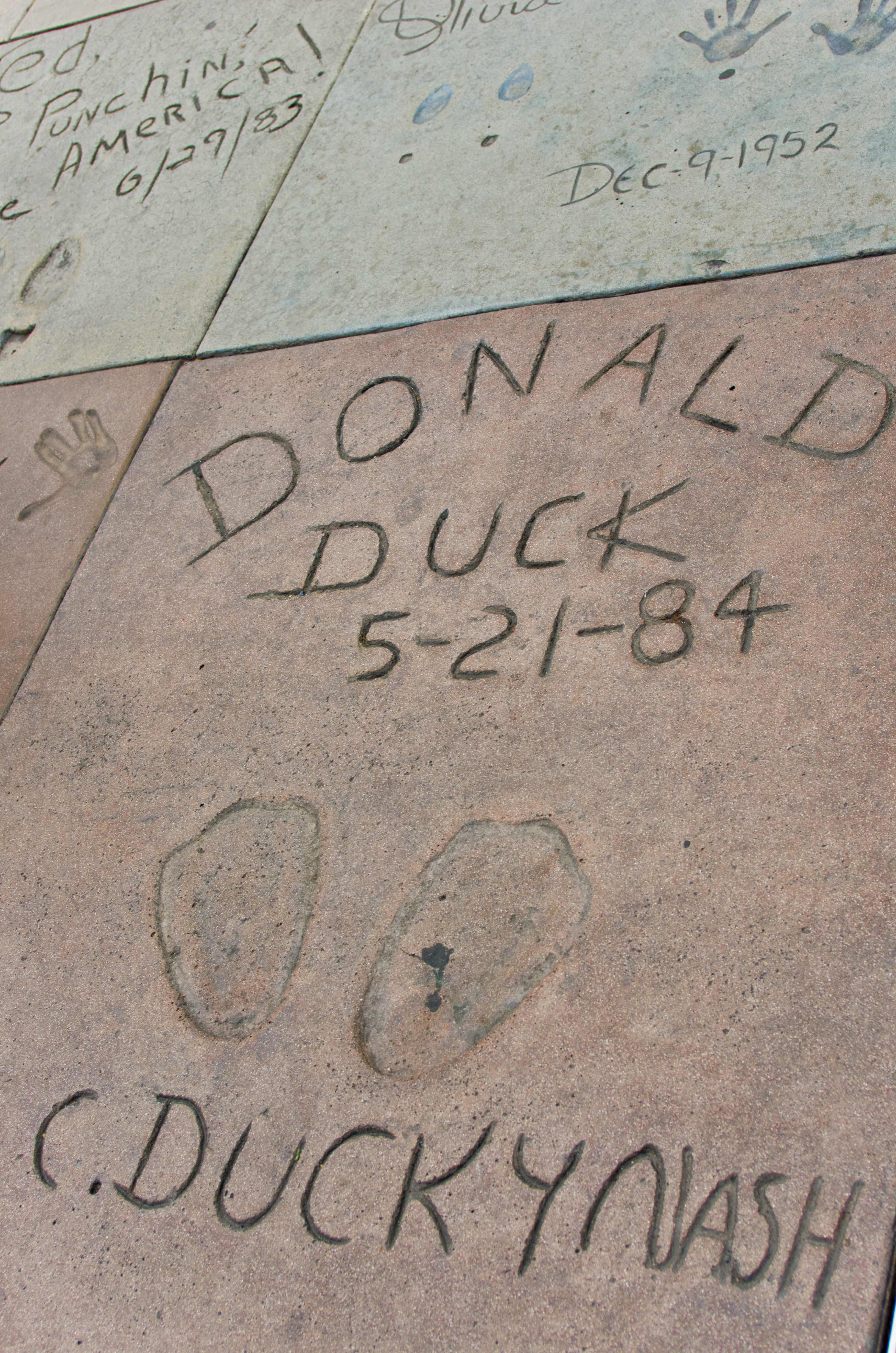 Donald Duck in Grauman's Chinese Theatre